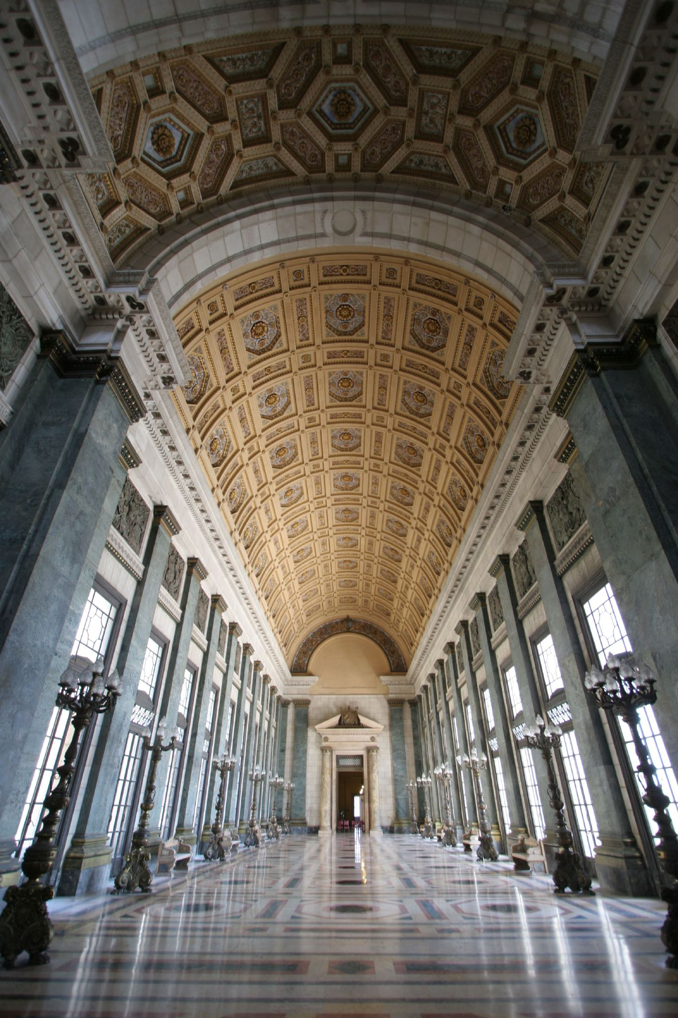 To either side of the main hall is the Salón de Pasos Perdidos (Hall of Lost Steps), named for its acoustic properties.